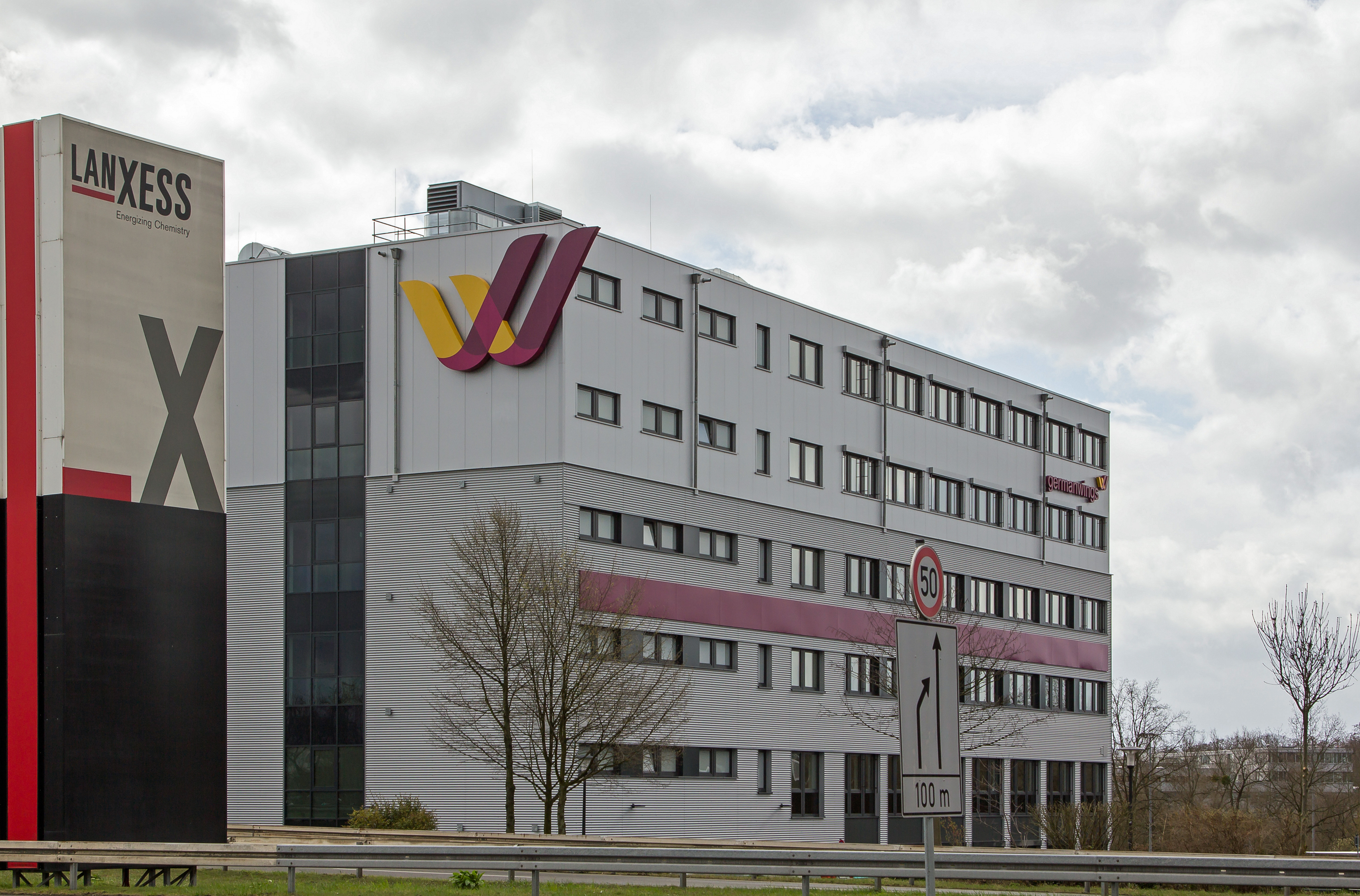 Germanwings head office - Germanwings-Str. 2, Porz, Cologne